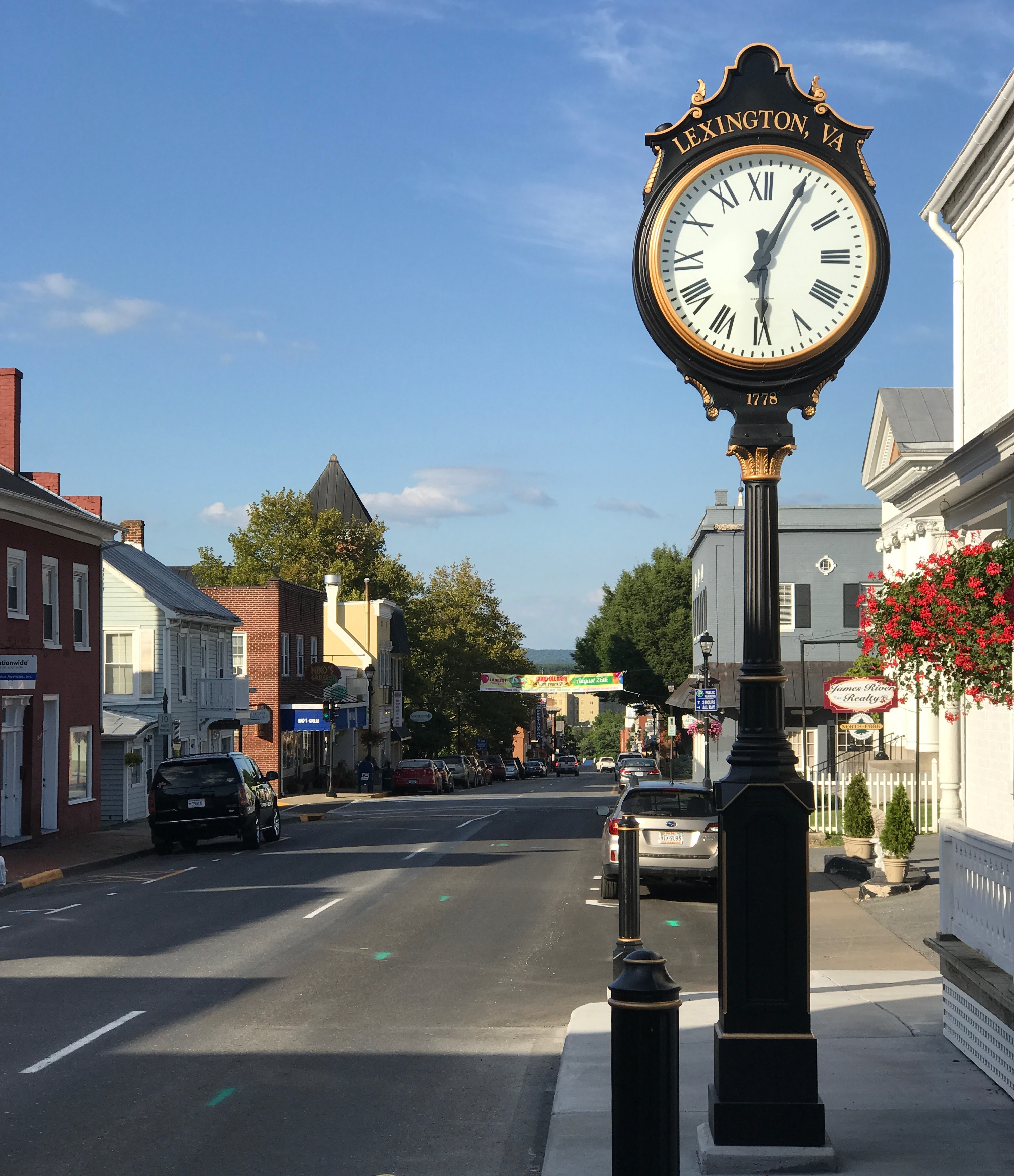 View of South Main Street, looking north, in Lexington, Virginia. Features a city street clock with the year 1778.